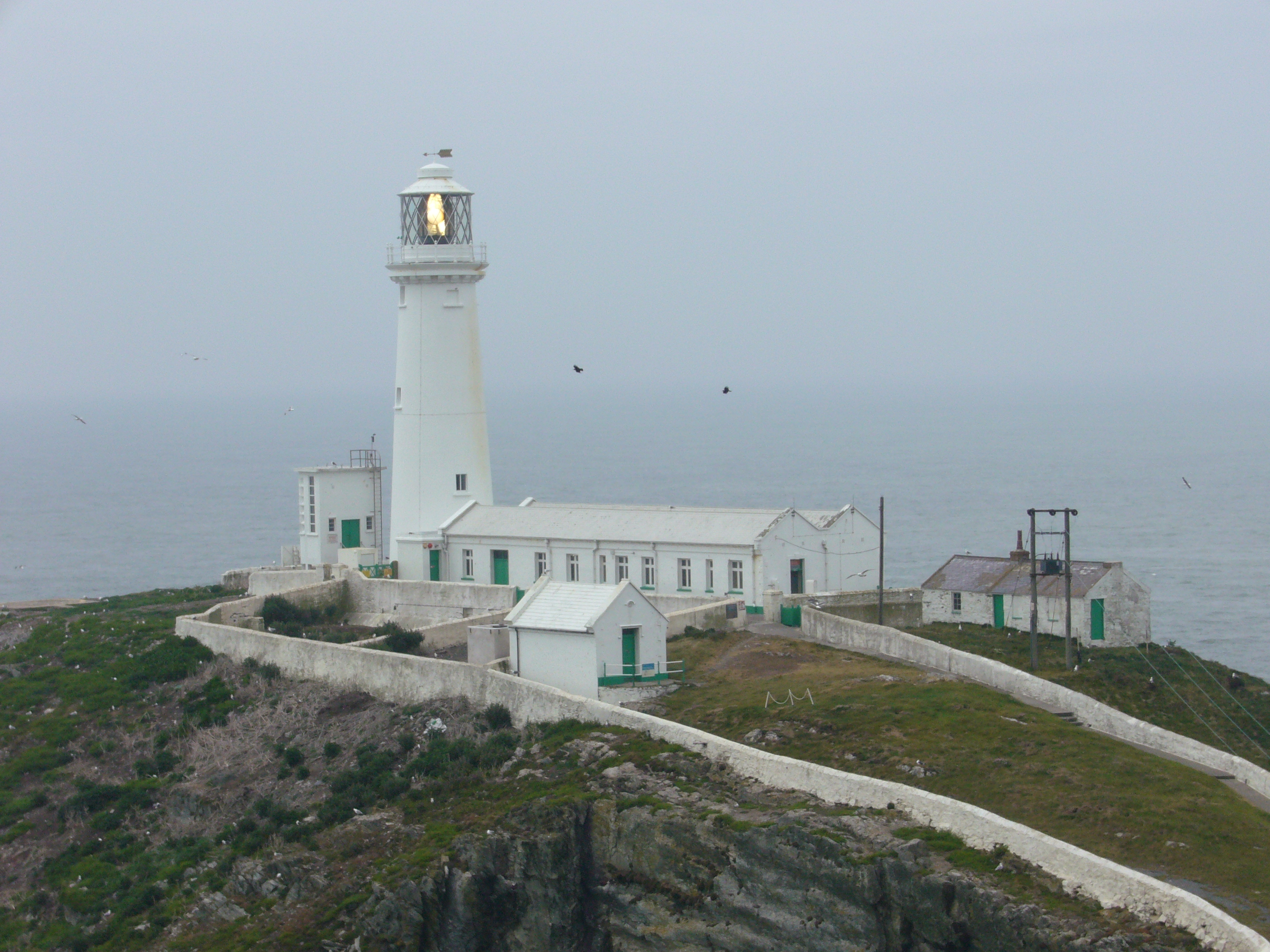 South Stack lighthouse on Anglesey in Wales. Required attribution is: Photo by Tom Oates.